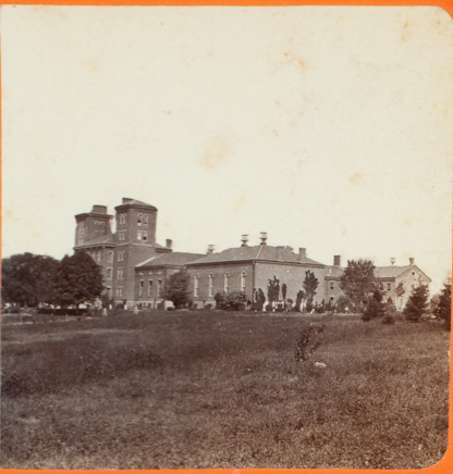 State Reform School 1860-1876